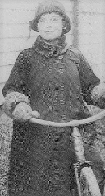 Depicts Lorraine Snyder, daughter of Ruth Snyder and her husband, Albert.